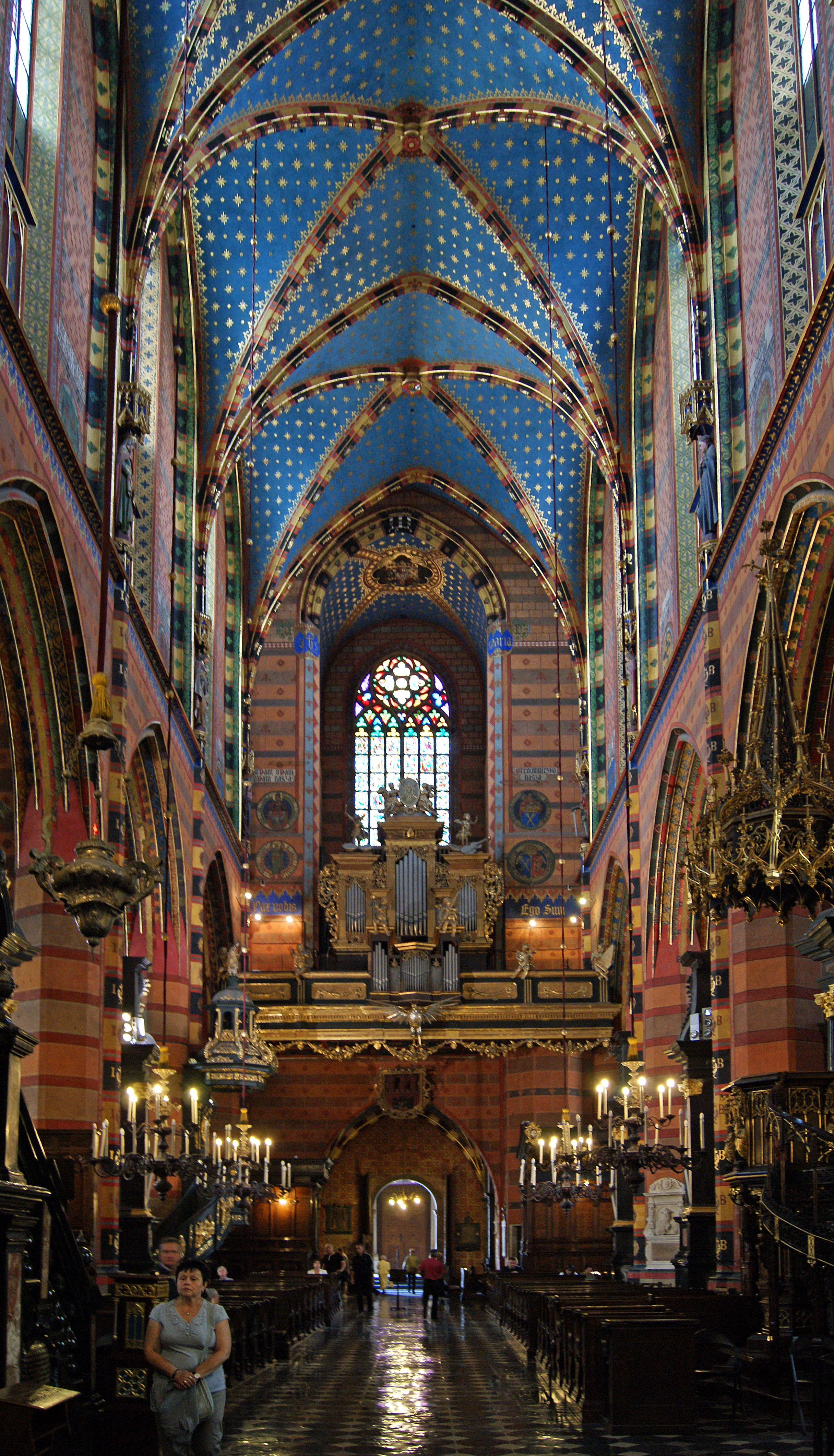 Church of Our Lady Assumed into Heaven (St. Mary's Church), interior-choir and organ, 5 Mariacki square, Old Town, Krakow, Poland